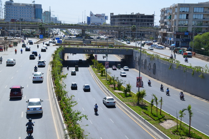 Kamla Underpass Photo